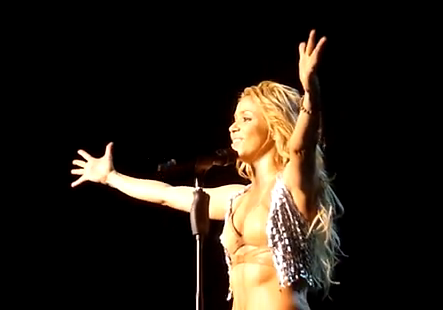 Shakira, The Sun Comes Out World Tour